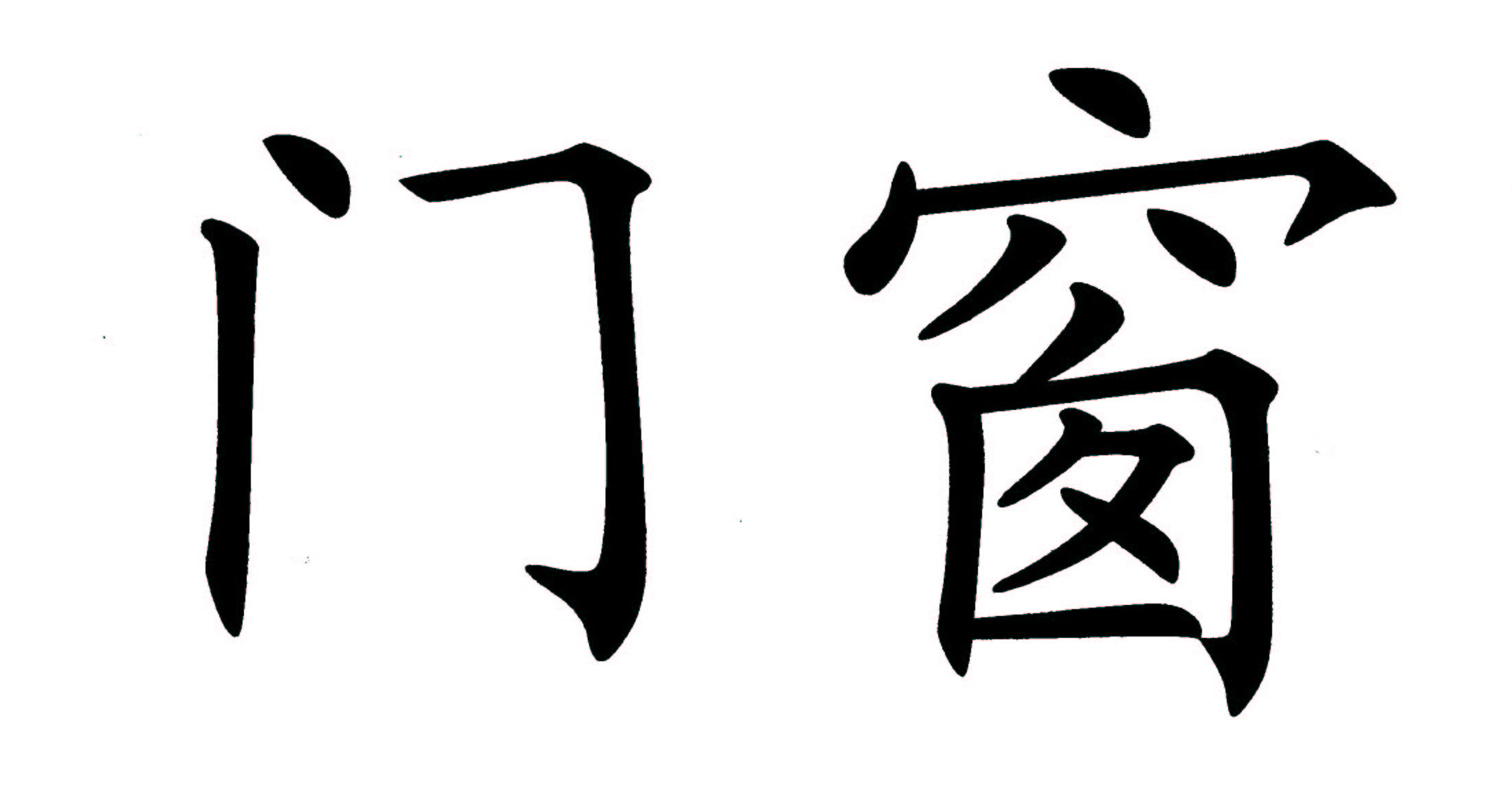 Door and Window in Chinese Characters